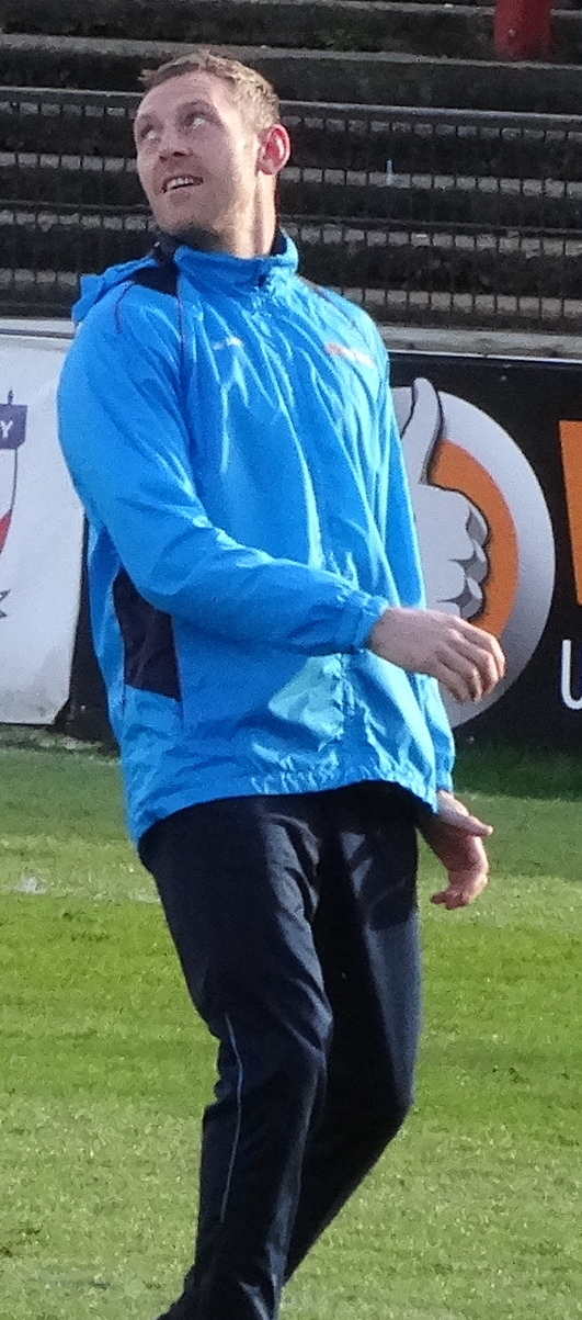 Graham Stack (footballer)Graham Stack warming up for Eastleigh against York City at Bootham Crescent, York on 4 March 2017